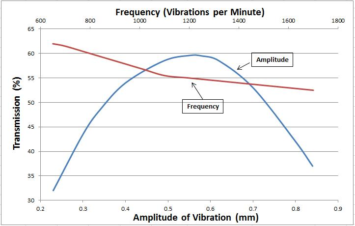 This is a graph of a relationship between the screening efficiency of mineral processing and the amplitude and frequency of the vibration.